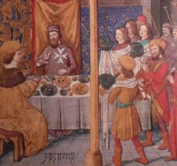 Sultan Cem_in Rhodes